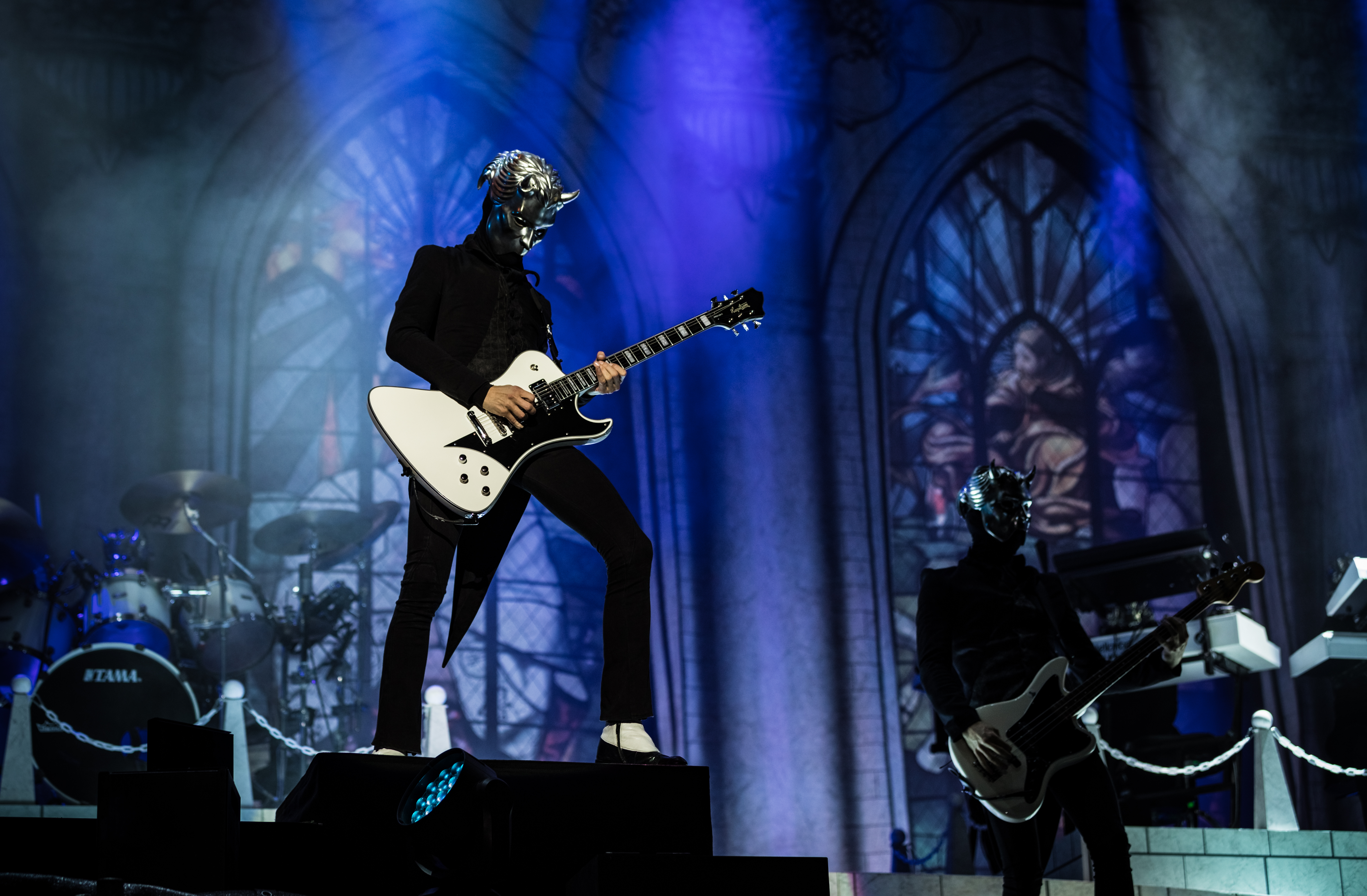 Ghost - Wacken Open Air 2018